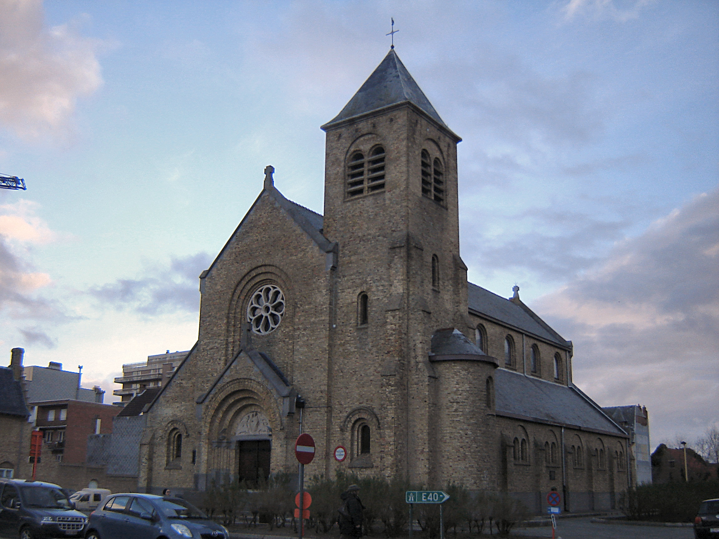 Church of Saint-Bernard in Nieuwpoort-Bad. Nieuwpoort, West Flanders, Belgium